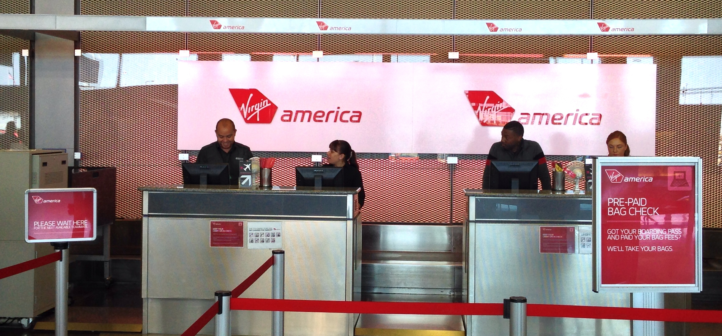 Virgin America Check In, 10000 West O'Hare Ave, Chicago, IL 60666, USA - Jun 2014